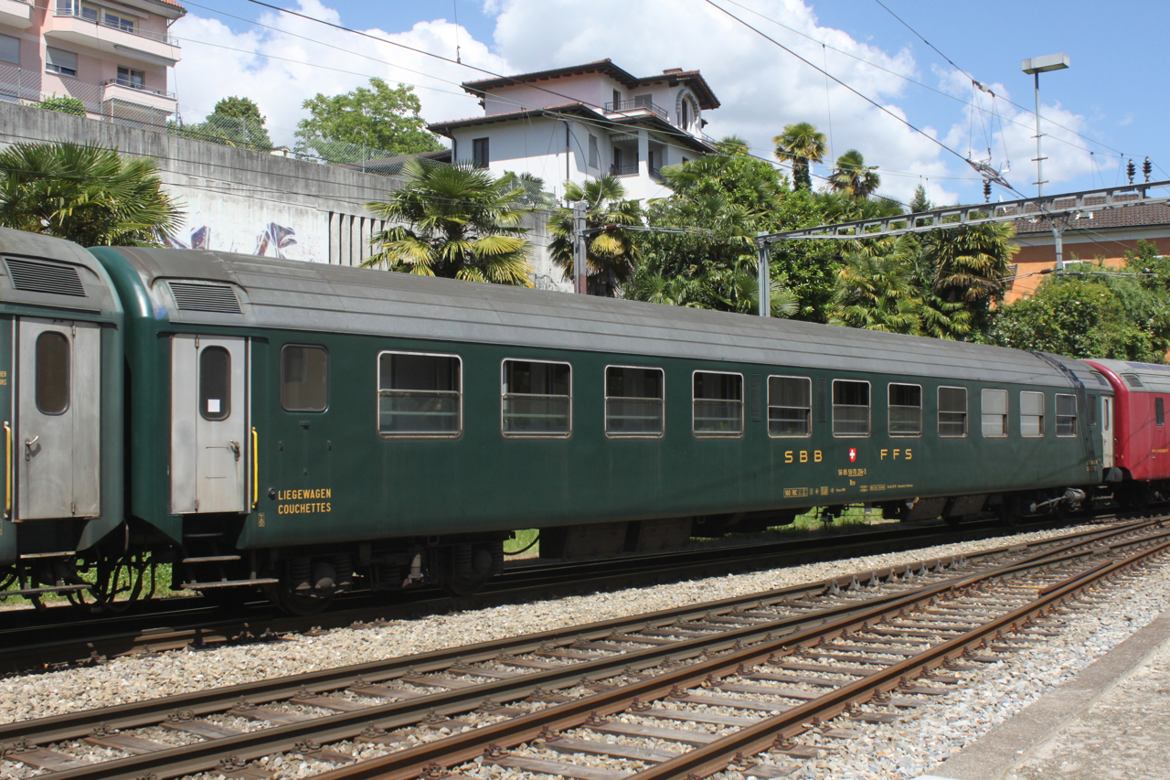 Bcm 56 85 50-70 204-3 of Club Bm 22-70 at Locarno train station.